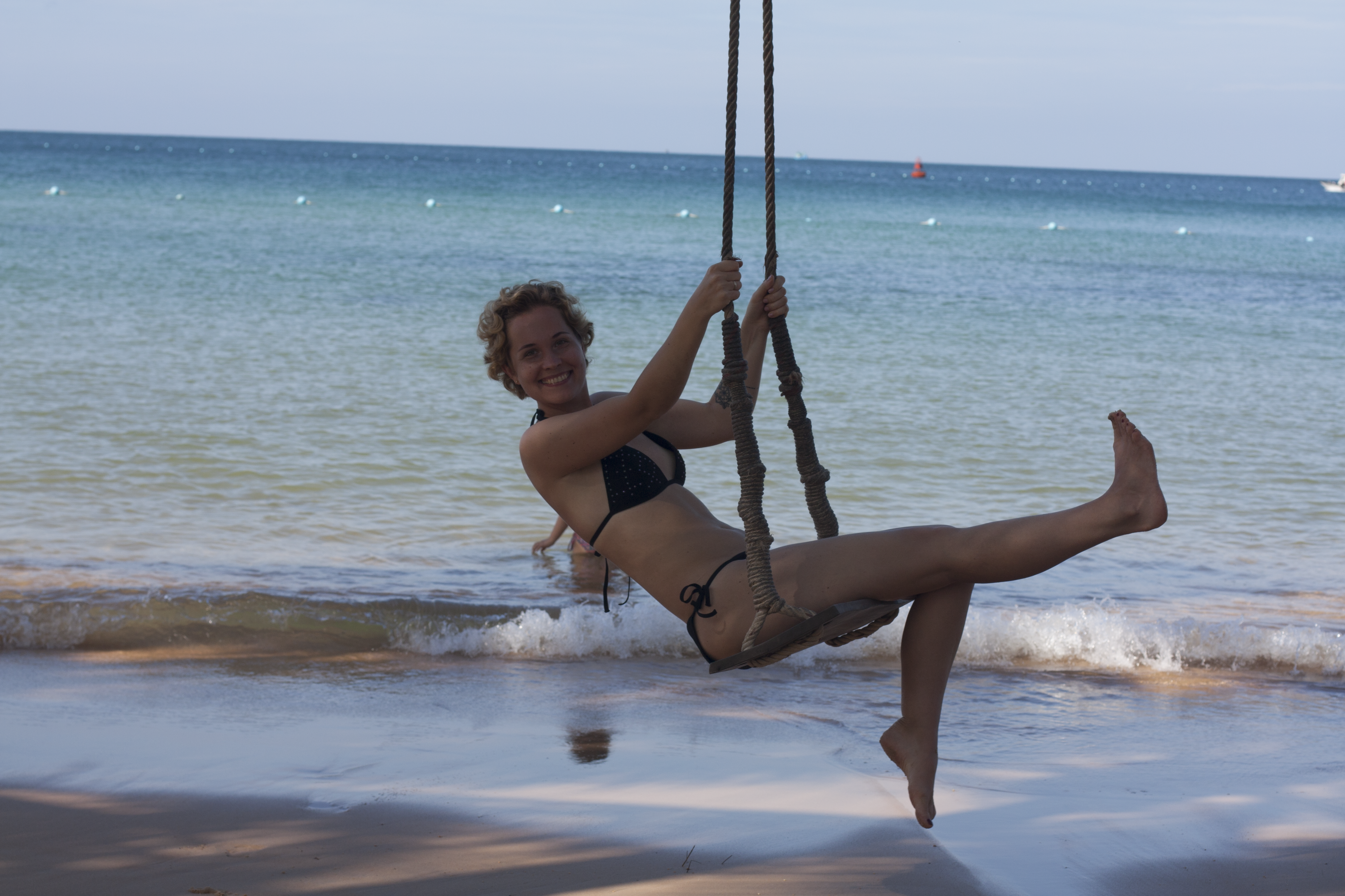 Daria Valeeva, an English teacher. Photo in support of the action #teachersarehumanstoo